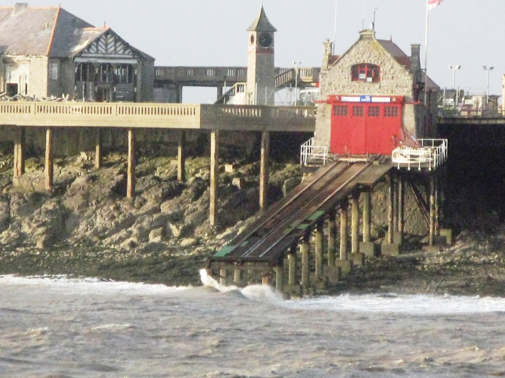 The lifeboat station on Birnbeck Island, Weston-super-Mare, North Somerset, England. The slipway has been truncated and lifebatts are now launched from another slipway on the other side of the island.